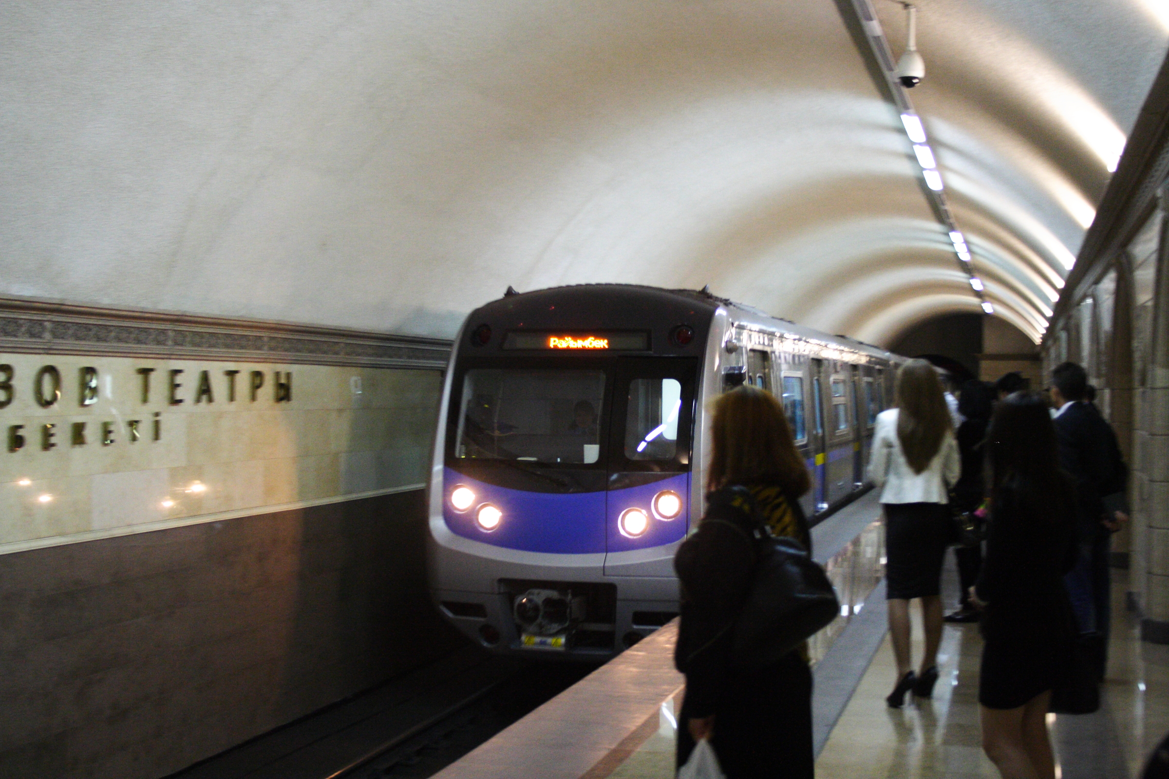 Almaty Metro